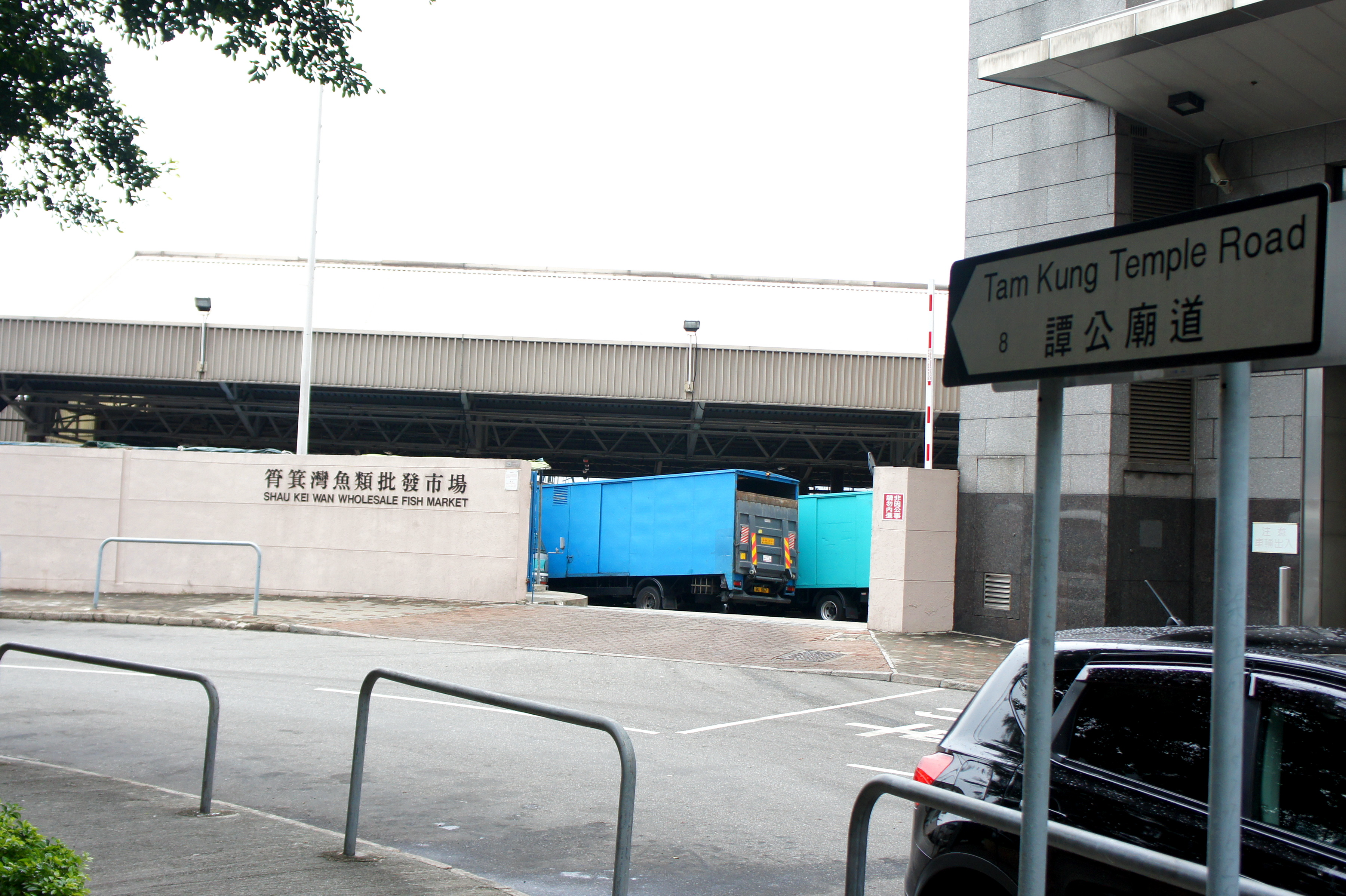 Shau Kei Wan Wholesale Fish Market, 37 Tam Kung Temple Road, Shau Kei Wan, Hong Kong.